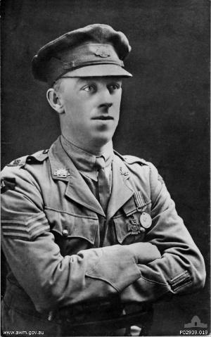 Studio portrait of George Julian Howell, an Australian recipient of the Victoria Cross during the First World War.